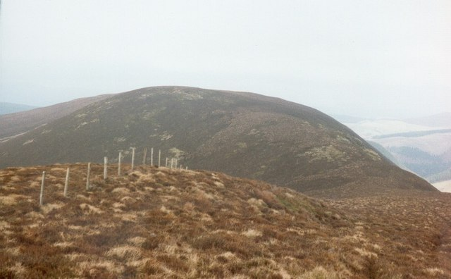 At spot height 612 metres, 4 km from Ty-Nant, Gwynedd, Great Britain. The minor top called Trum y Gwragedd from the slopes of Foel y Geifr.